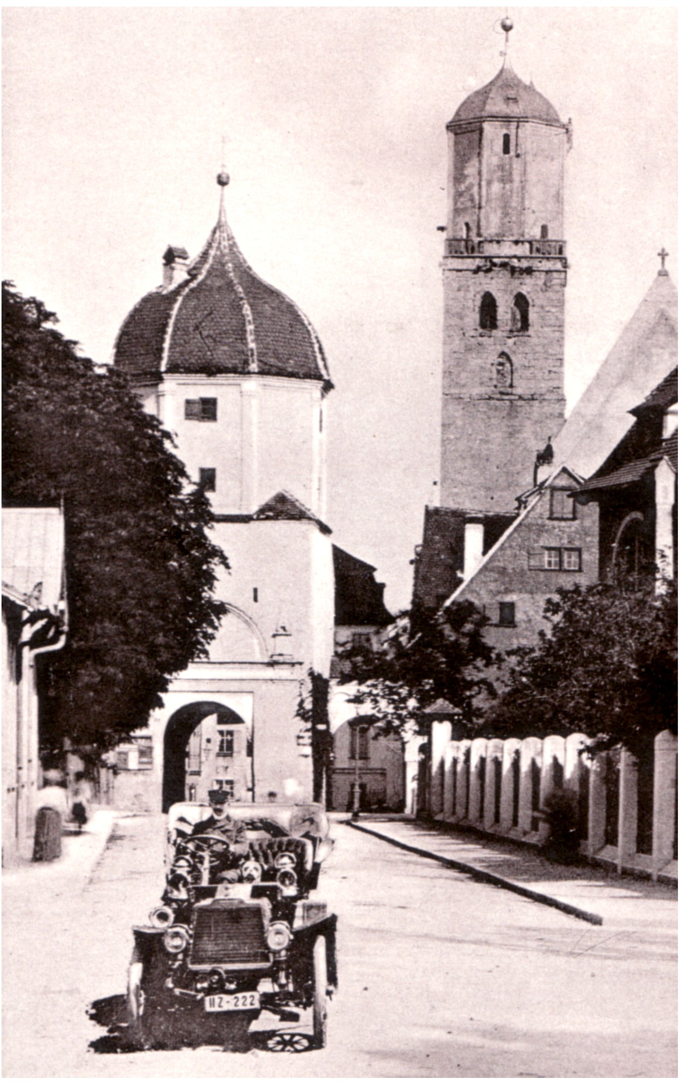 Wenkelmobil with driver and dog passenger